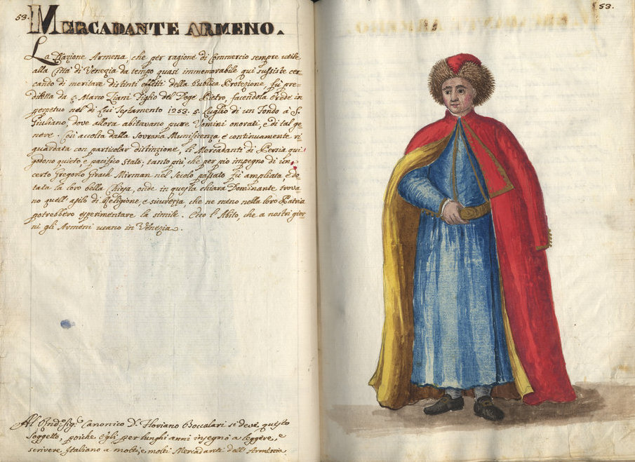 An Armenian merchant portrayed by Giovanni Grevembroch in the 18th century